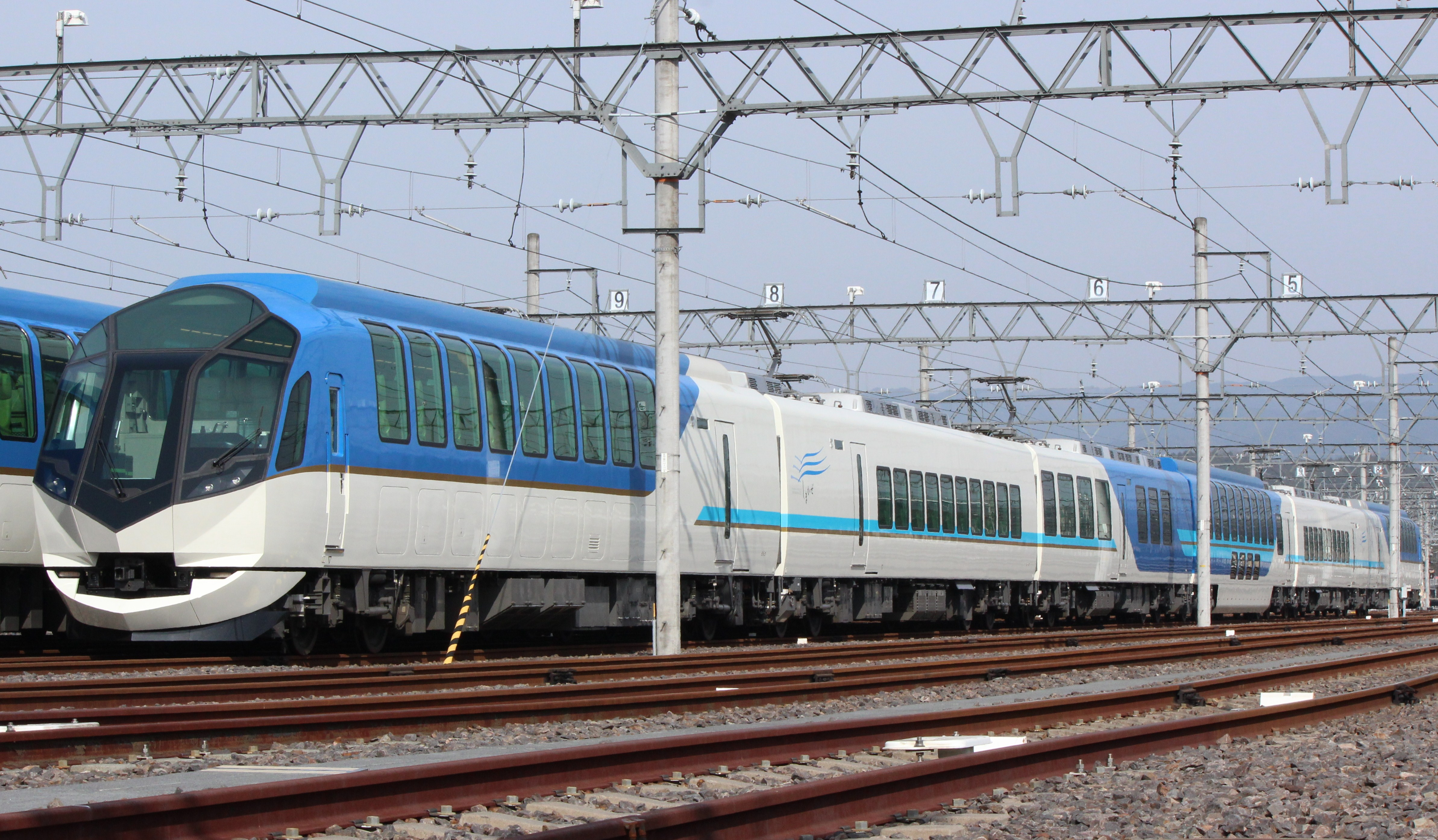 A Kintetsu 50000 series Shimakaze EMU at Aoyamacho Depot